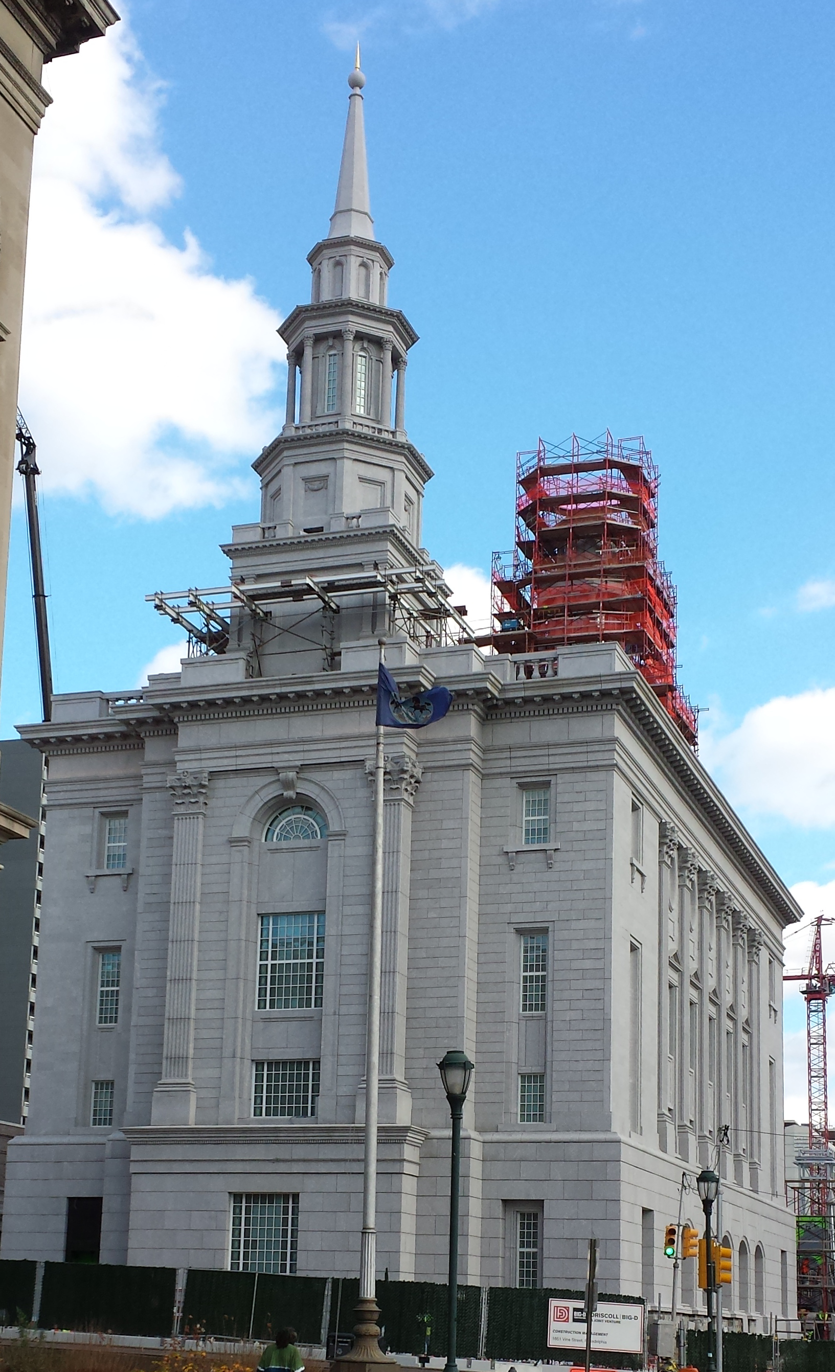 The west end of the Philadelphia Pennsylvania Temple of the LDS (Mormon) Church, under construction in December, 2015